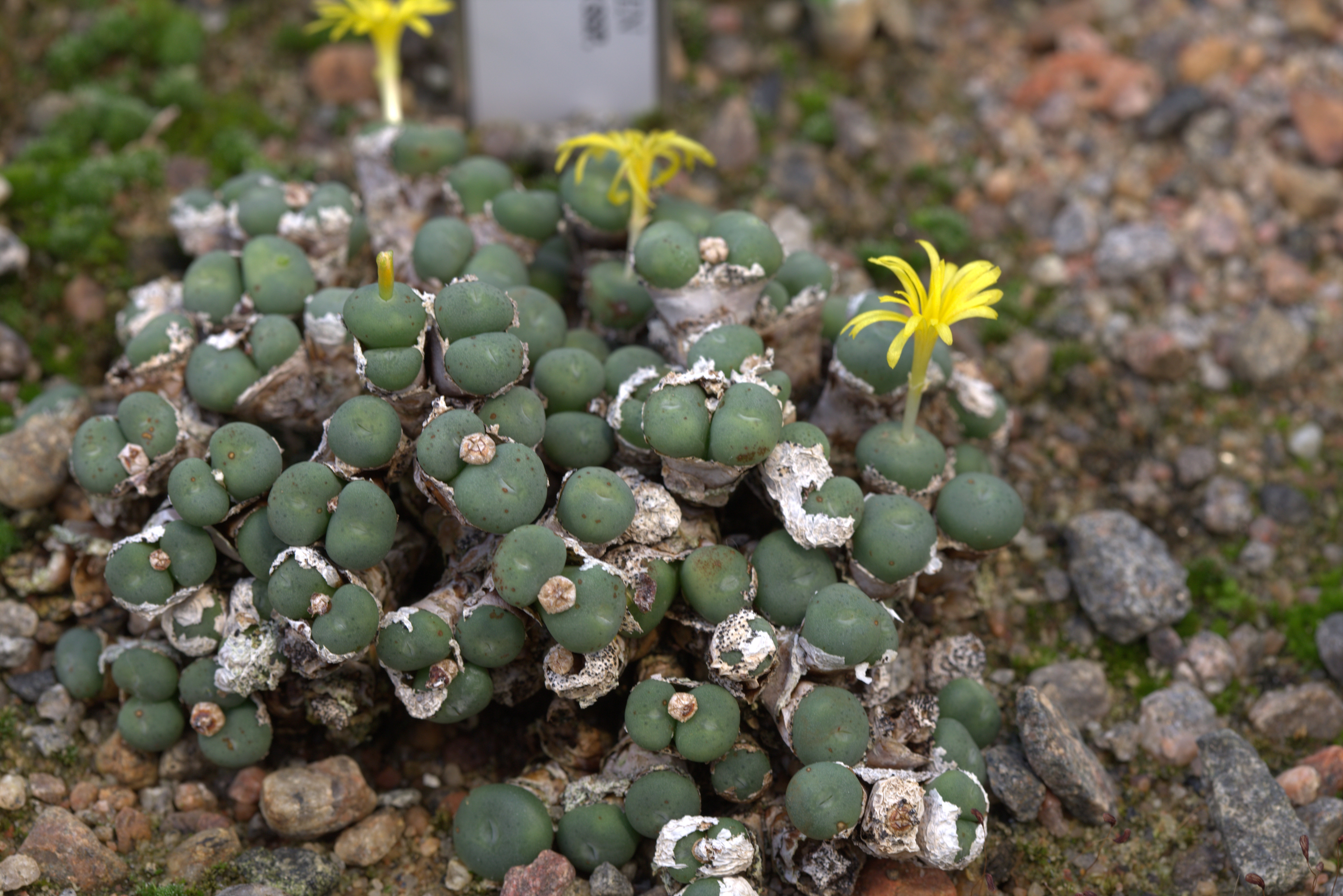 Conophytum flavum ssp. novicium at Gothenburg Botanical Garden. Plant id: 2001-1998 p Z -- Lintsen